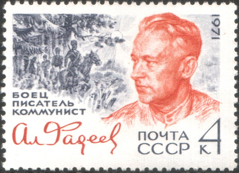 A USSR stamp